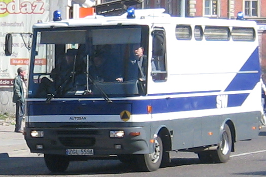 Autosan H6-10ZK of Polish Służba Więzienna (Prison Service).